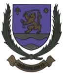 Coat of arms of Drávapalkonya, Hungary